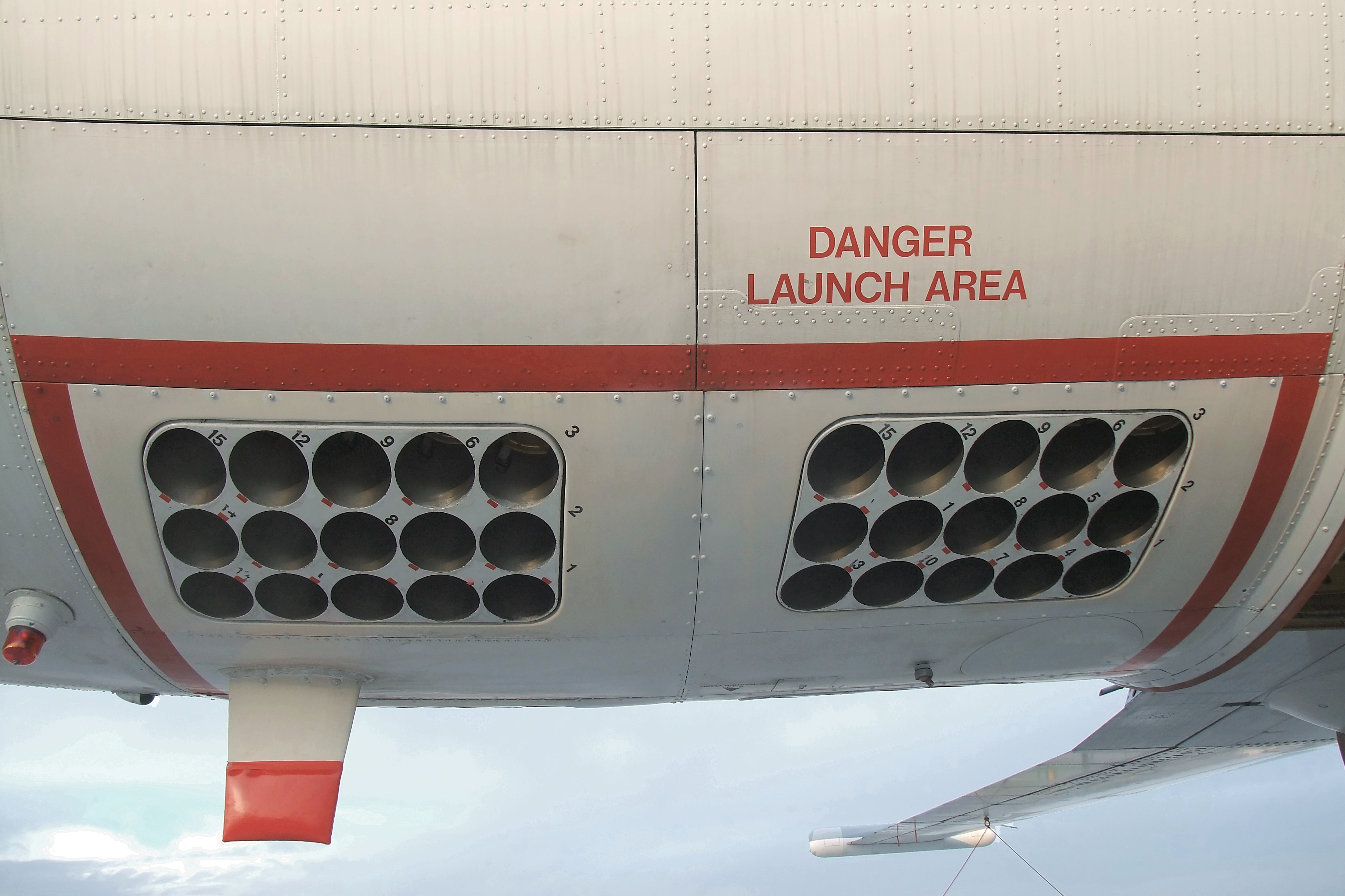 in the rear of the Breguet BR 1150 Atlantic long-range reconnaissance, patrol and anti-submarine aircraft. Dornier museum Friedrichshafen, Germany, Nov 21, 2009.